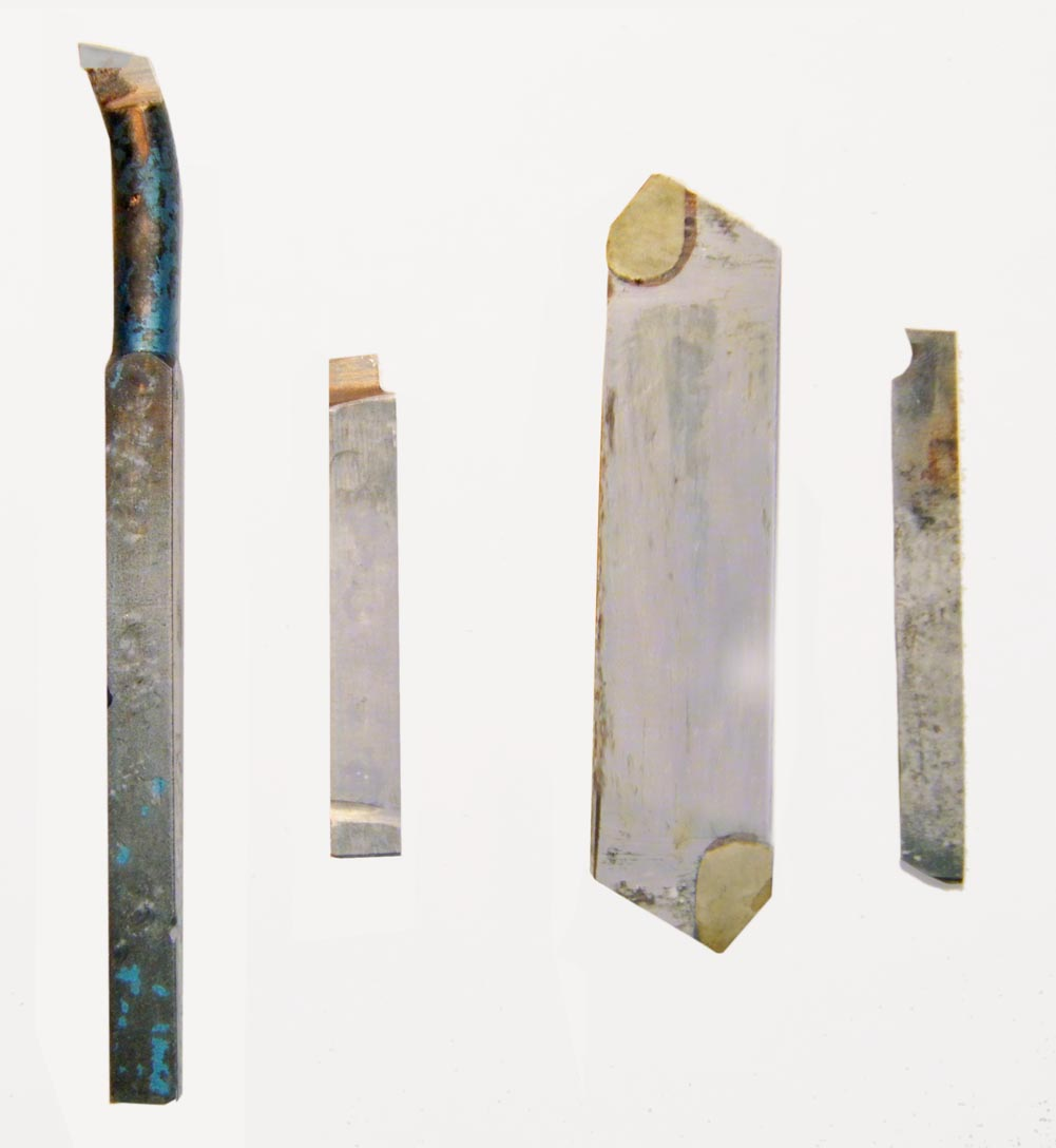 tools for lathe